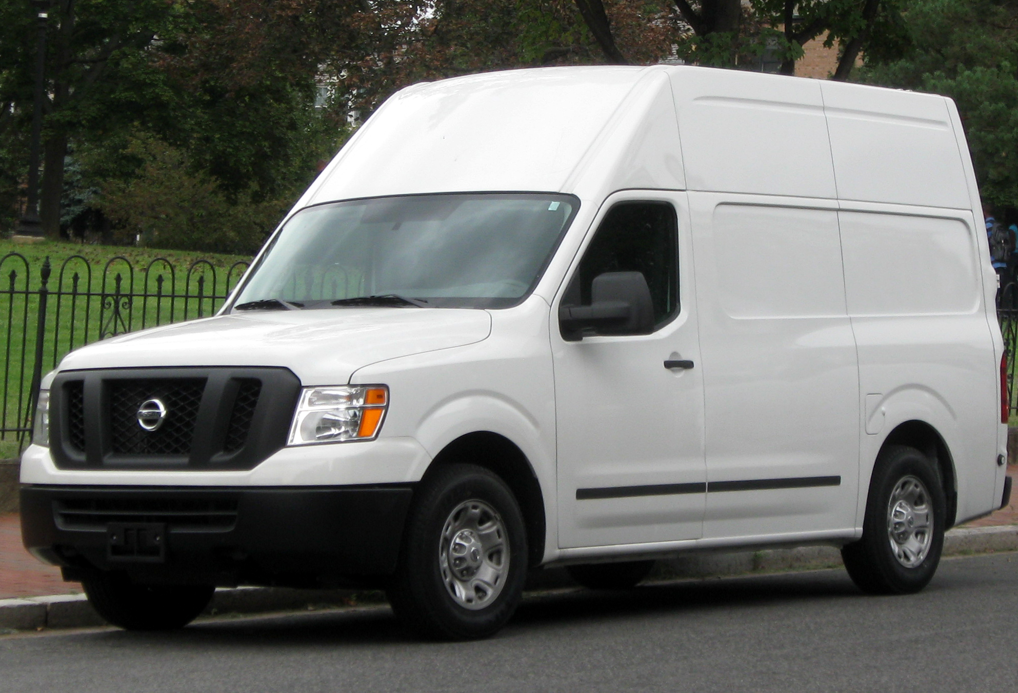 2012 Nissan NV photographed in Washington, D.C., USA.